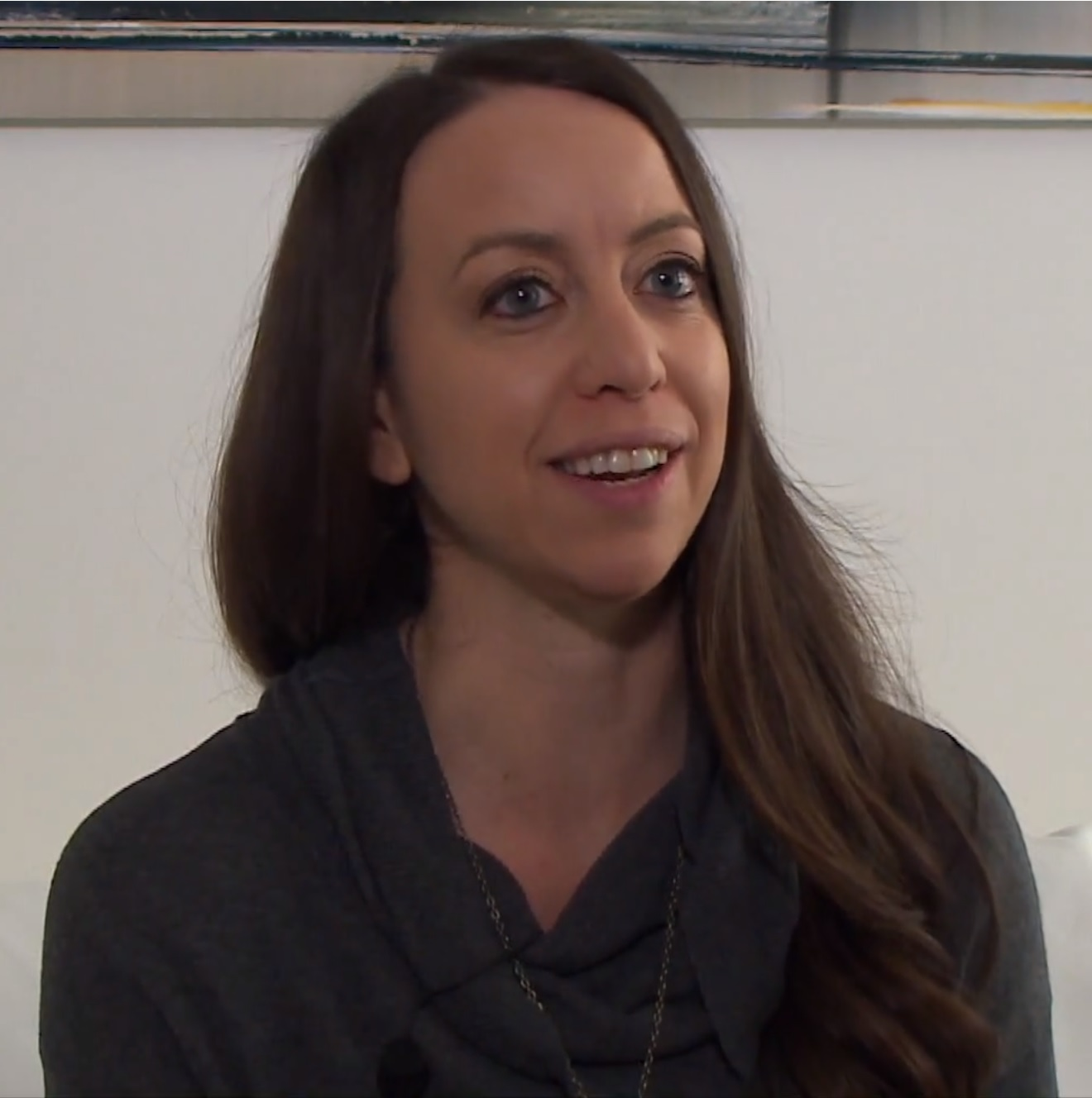 Jessica Brody discusses her work "Unremembered Volume 1 : Inaccessible" published by Au diable Vauvert. Translated to French by Clémence Sebag. Find the book : Visit the site : Facebook : Twitter : You Tube : Dailymotion : Vimeo : Instagram : Pinterest : Tumblr : Soundcloud: Blogs